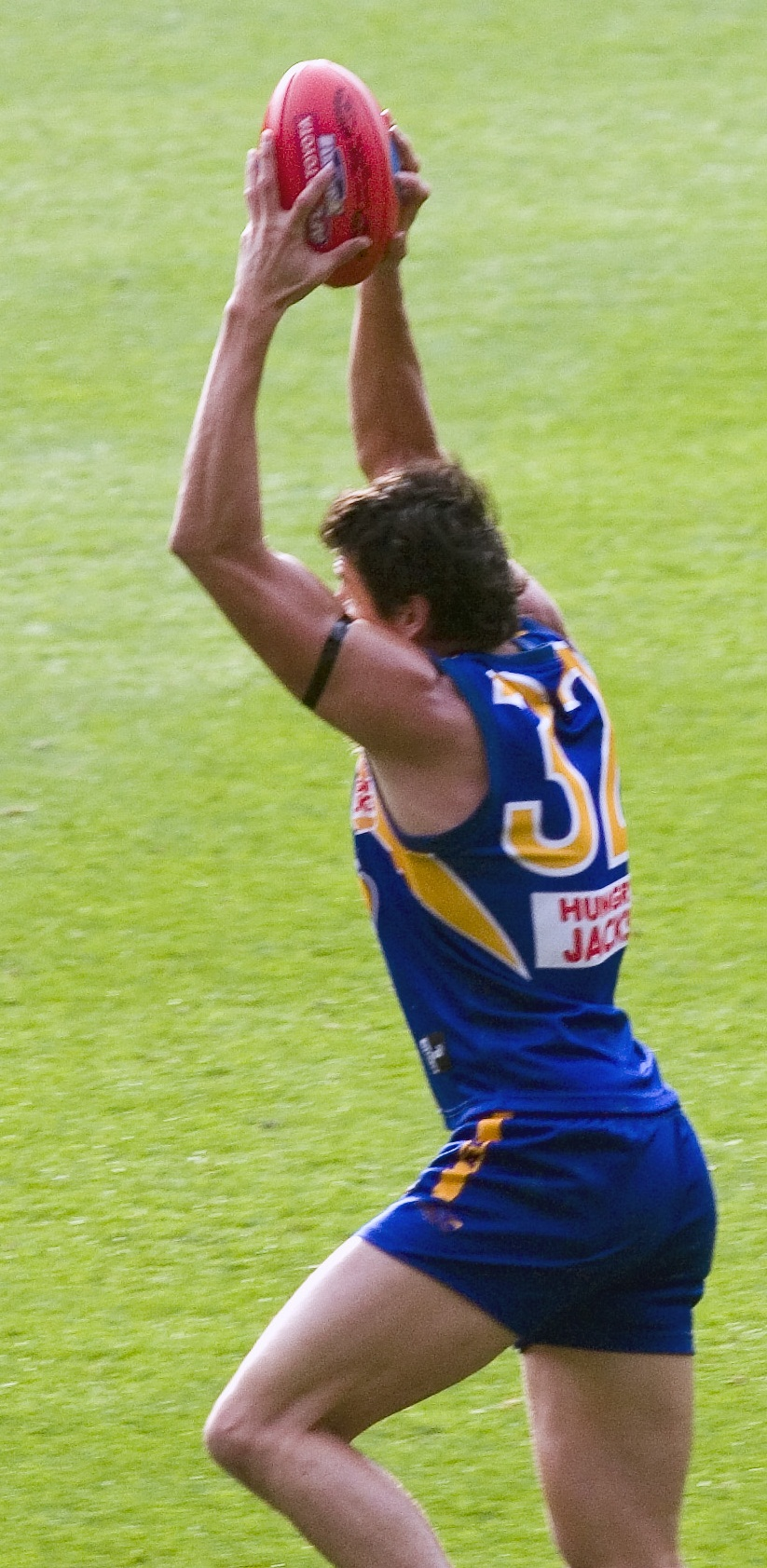 Andrew Embley takes a mark against Sydney in the 2005 AFL Grand final